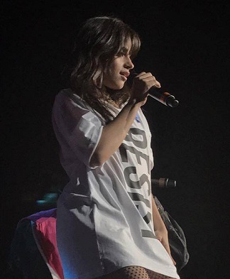 Camila Cabello performing at ACLU Benefit Concert